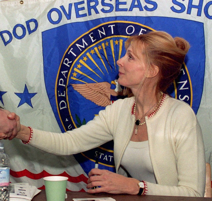 Gates McFadden, star of "Star Trek, the Next Generation", takes time after a USO performance to sign autographs, shake hands and take photos with soldiers deplolyed to Operation JOINT ENDEAVOR in Tuzla, Bosnia and Herzegovina.